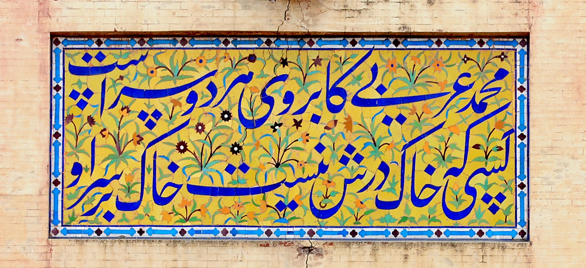 Wazir Khan Mosque This is a photo of a monument in Pakistan identified as the PB-100